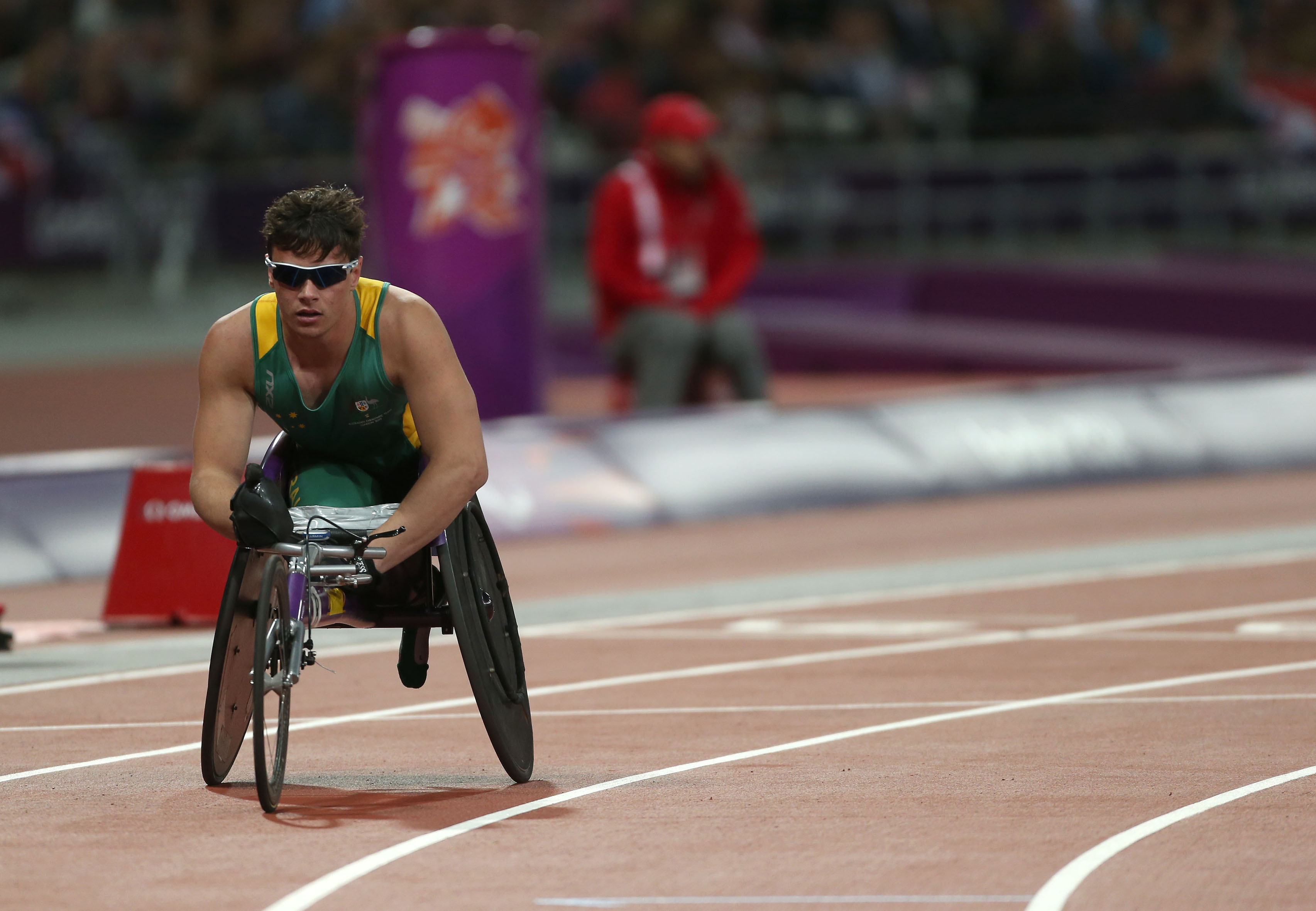 Photograph of Australian Paralympic team member Jake Lappin at the 2012 Summer Paralympic Games in London